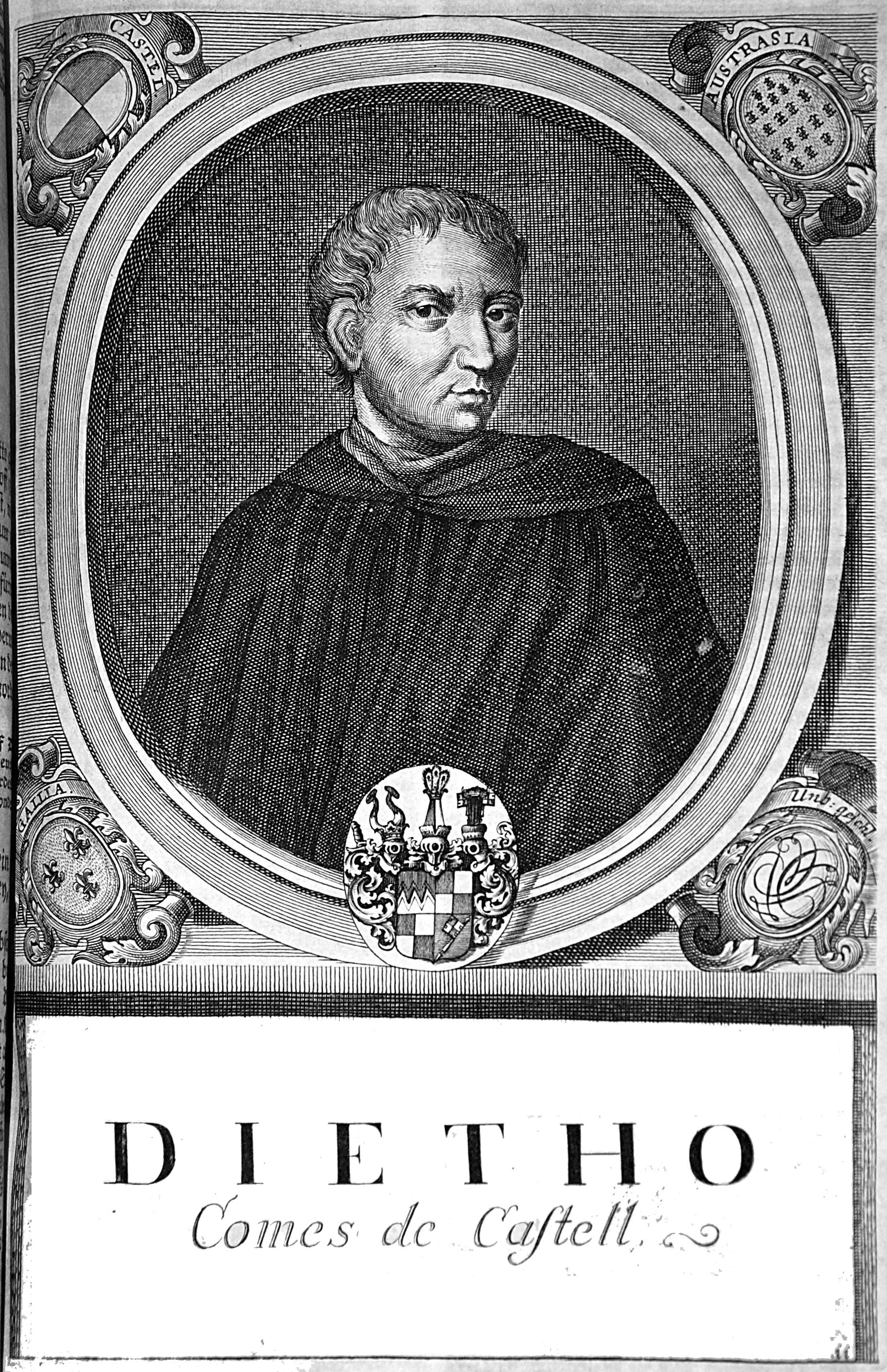 Thioto 908 to 931 Bishop of Würzburg.